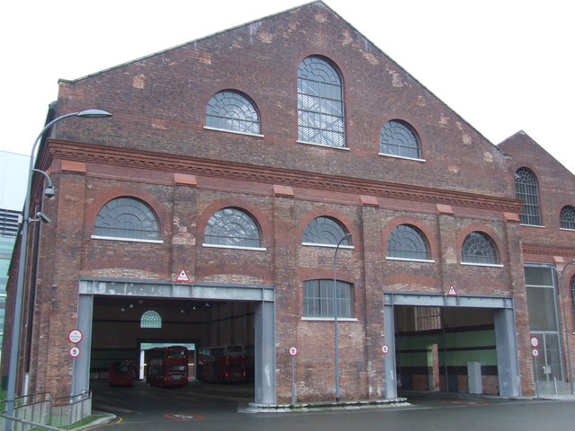 White City bus station, Data from Geograph: Description: This building, dating from around 1898, was originally a power generating station for the underground railway (now London Underground's Central Line). It was later used as a machine tool shop before falling derelict. With the... more ICBM: 51.50870006583, -0.22298232880918 Location: (about 2 km from) near to Hammersmith, Hammersmith And Fulham, Great Britain.